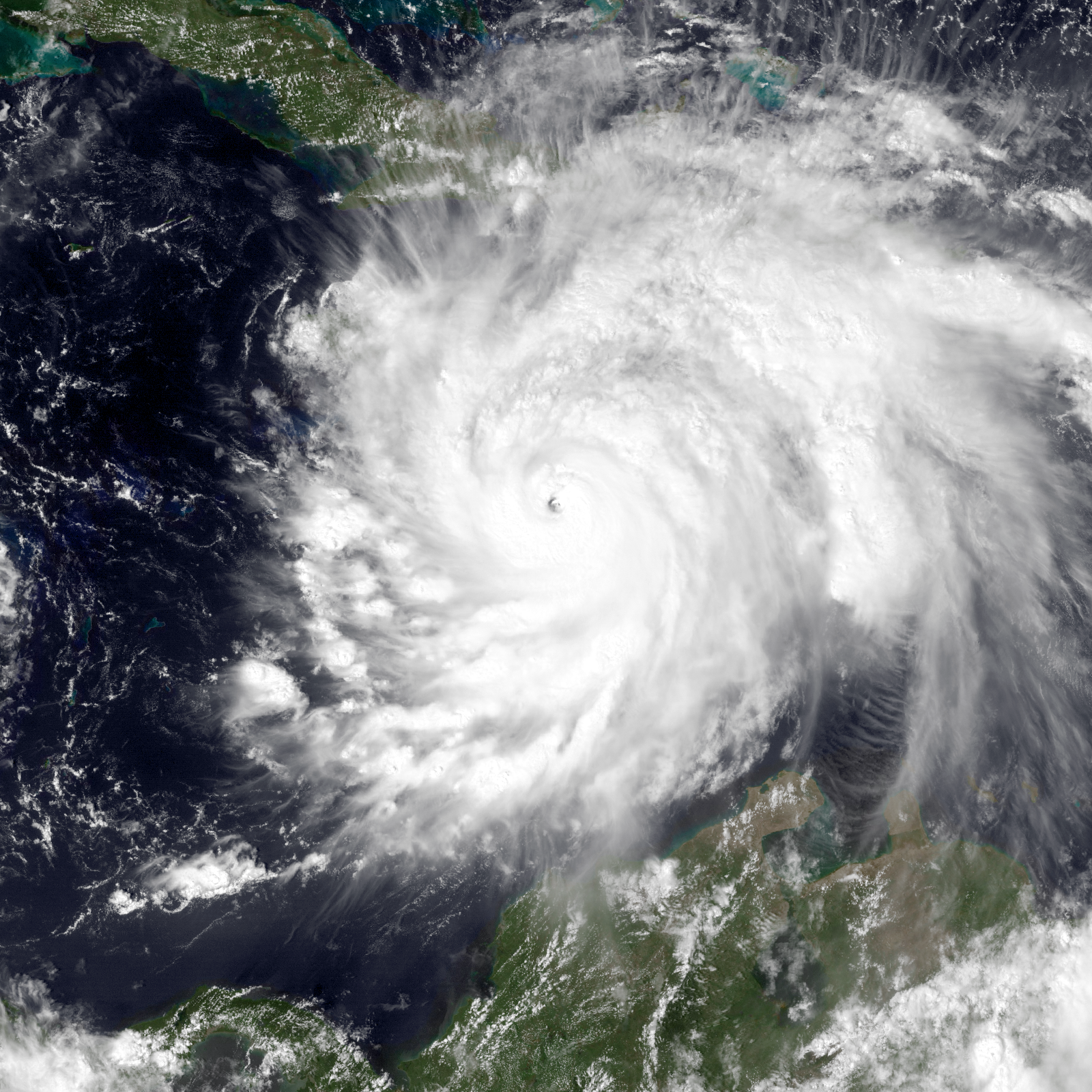 Hurricane Matthew approaching Jamaica, Hispaniola and Cuba on October 3, 2016.